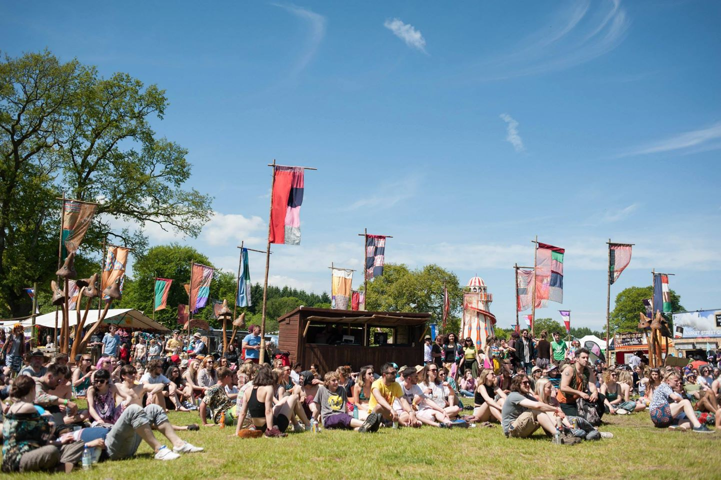 chilling at the main stage